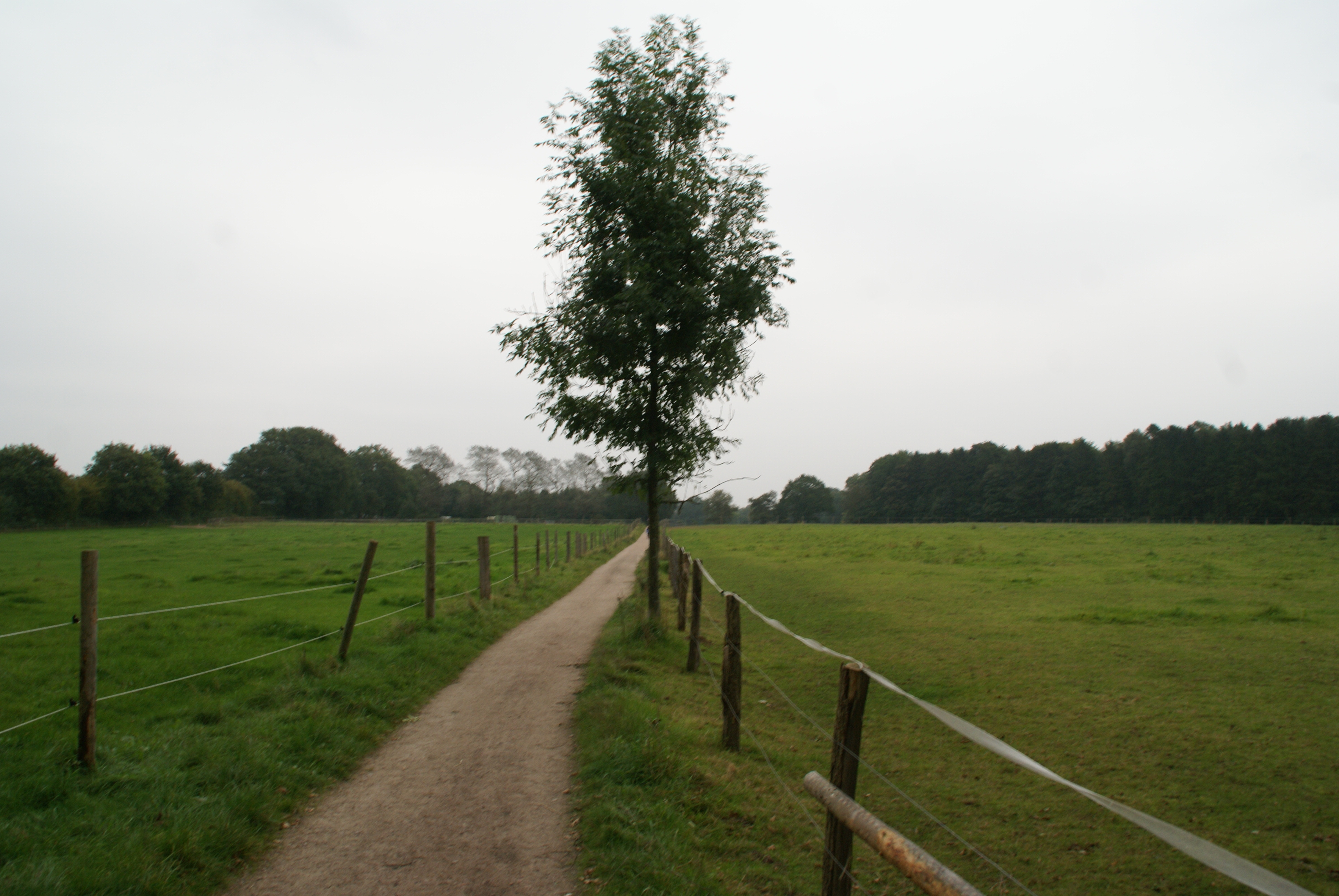 Bergstedt (Germany): The path Furtstieg and the valley of the Furtbek (ro the right)